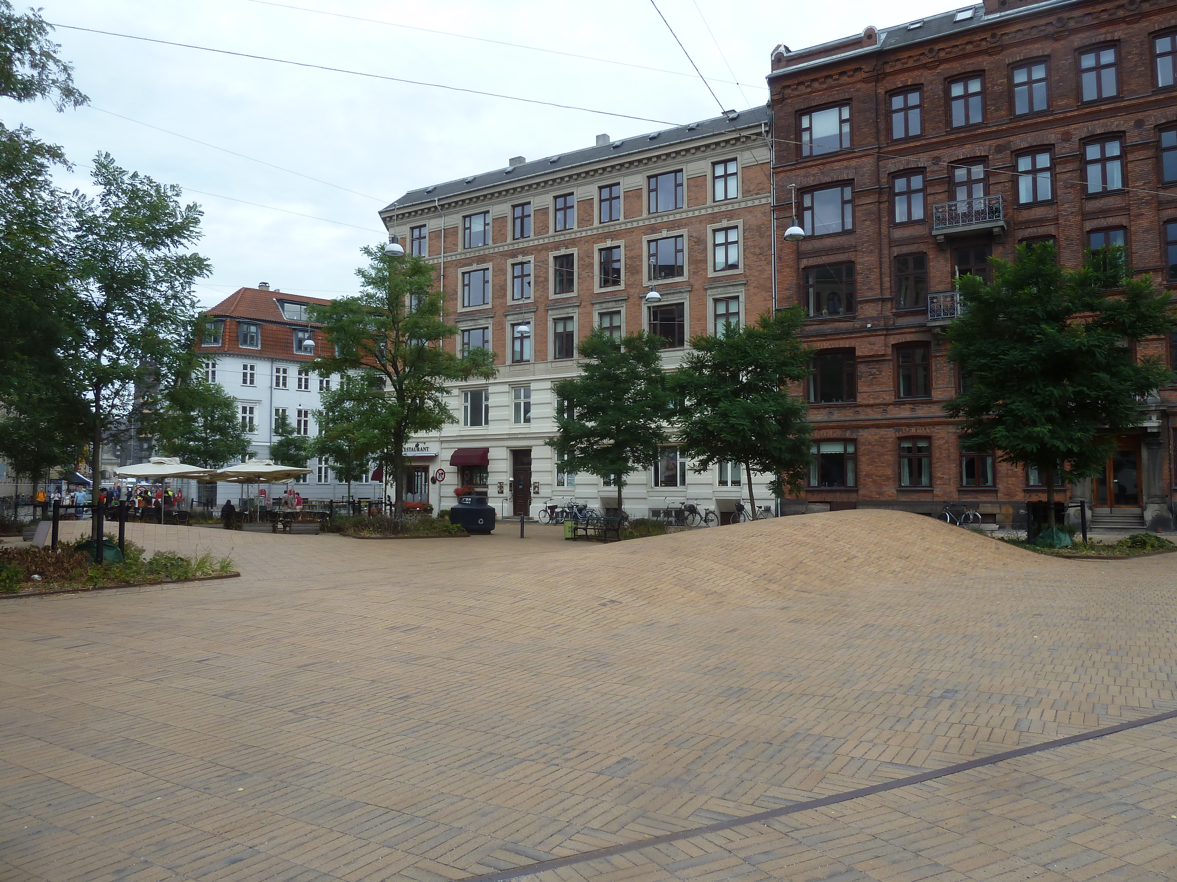 Dantes Plads in Copenhagen, Denmark